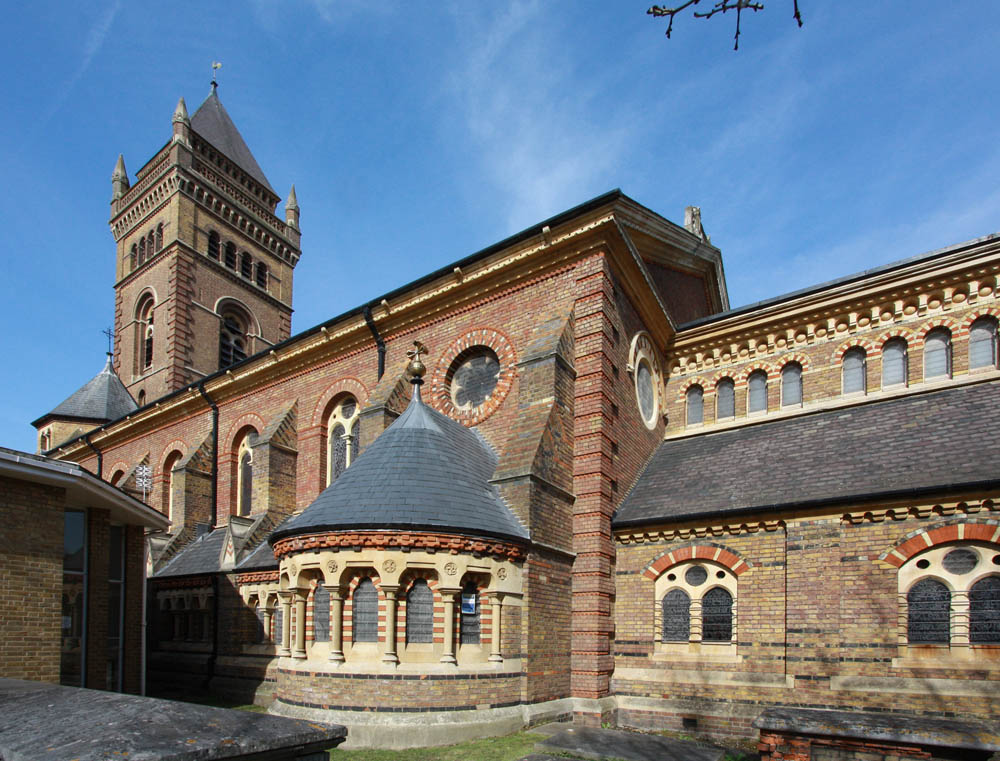 St Mary, St Mary's Road, South Ealing, London W5